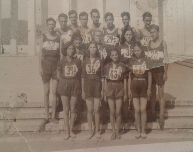 Ekipi atletikes lehte